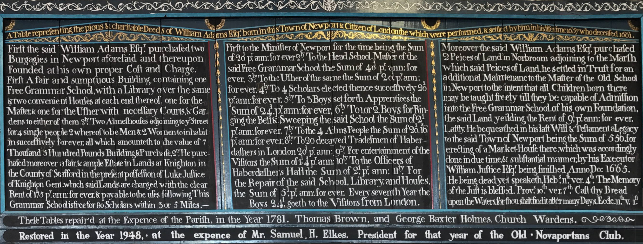 A photograph of wooden tables describing the contents of the Will of William Adams, founder of Adams' Grammar School